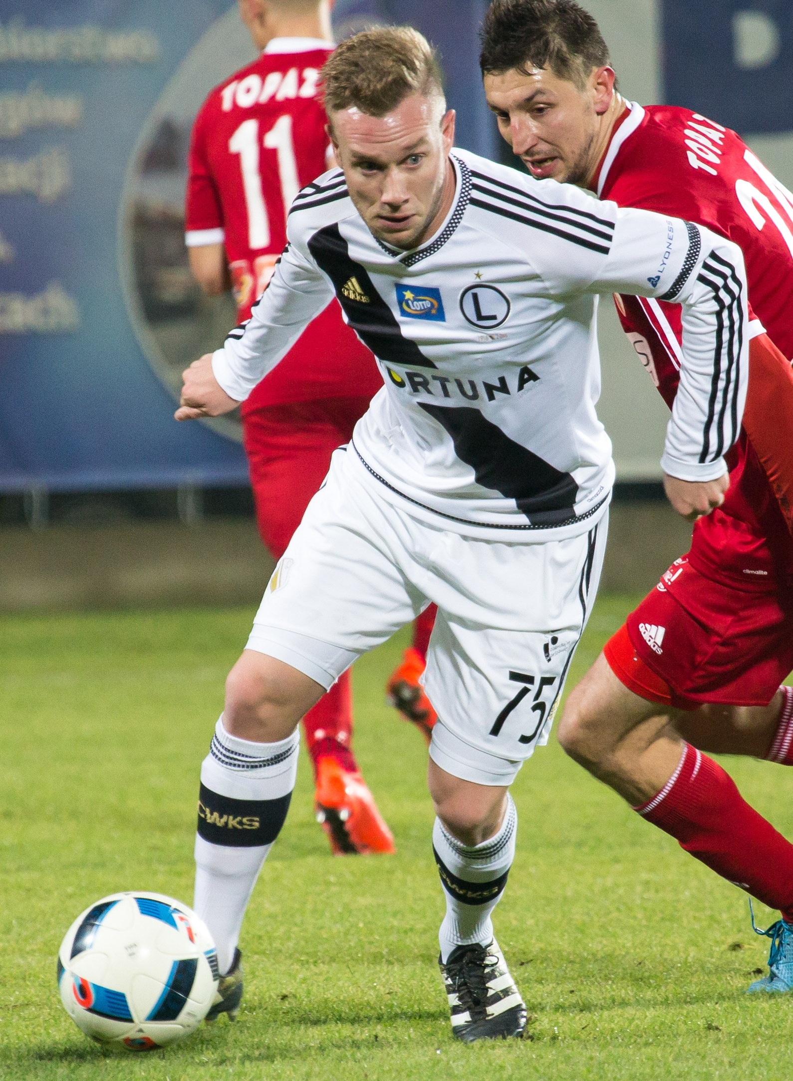 Thibault Moulin during match against Pogoń Siedlce